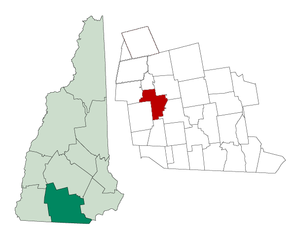 Map of a municipality in Hillsborough County, New Hampshire